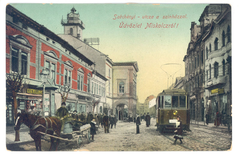 Miskolc, Széchenyi street, with old tram. On the left: the National Theatre of Miskolc.